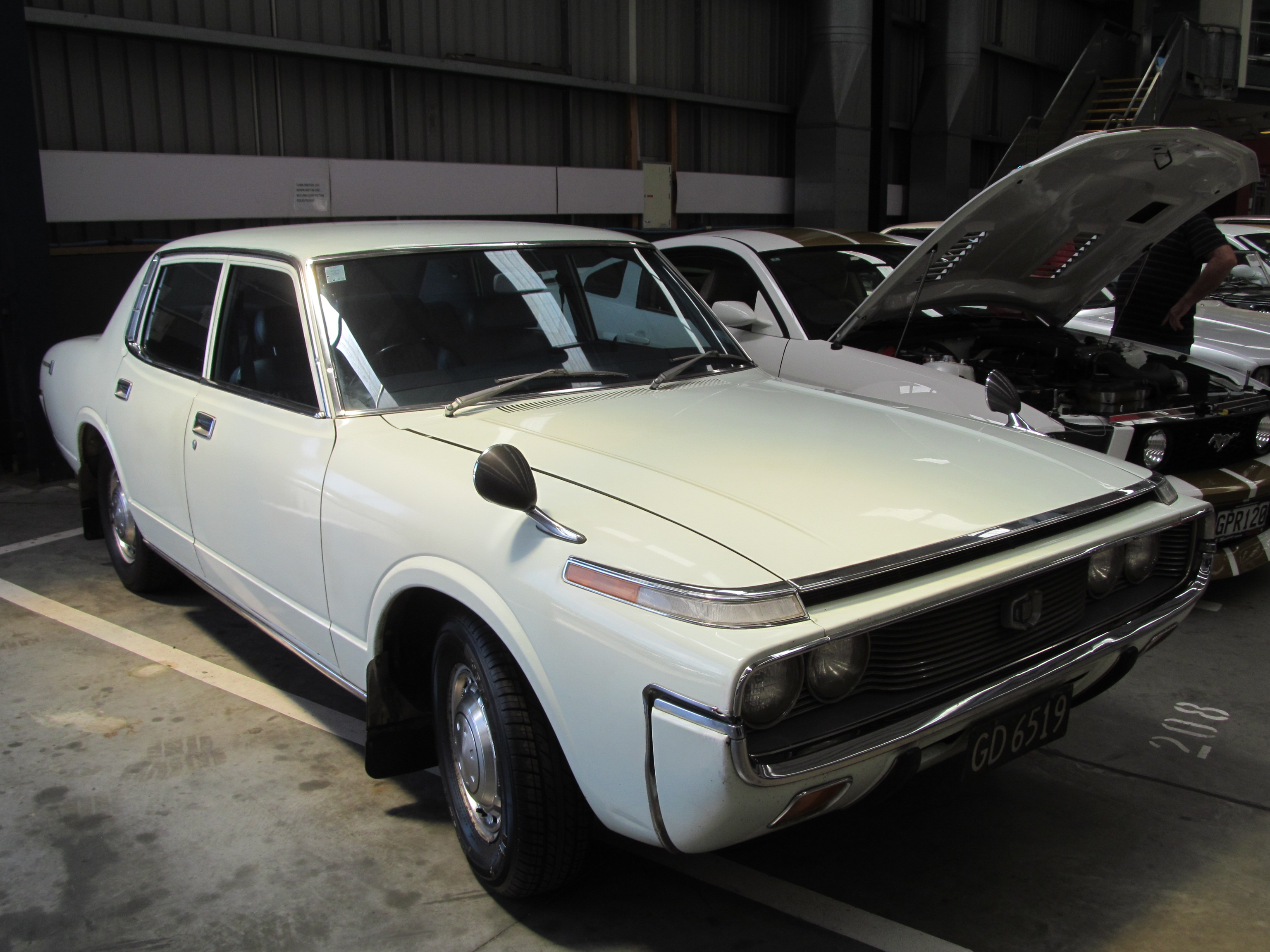 An incredibly original MS65 Crown and one of the oldest I've seen being a 1972. CarJam suggests this particular car, registered in May 1972, had only done around 81,000 original kilometres at the time of this photo late last year...